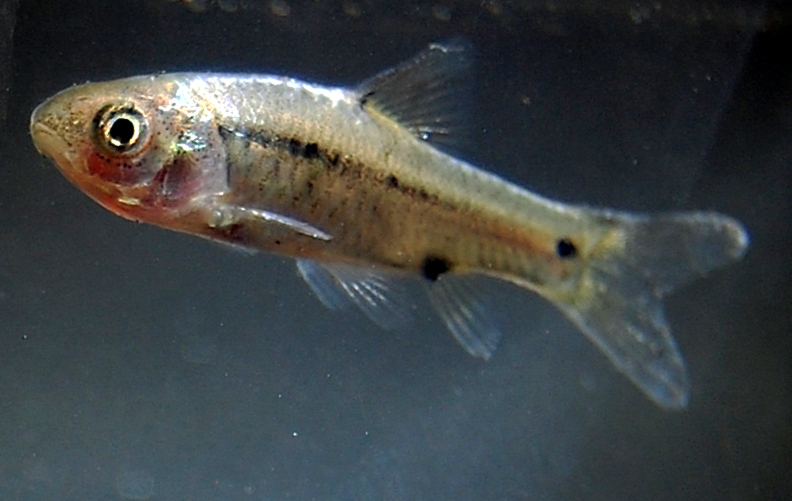 Puntius binotatus juvenile, 22 mm SL, from Ciliwung River, Bogor, West Java, Indonesia